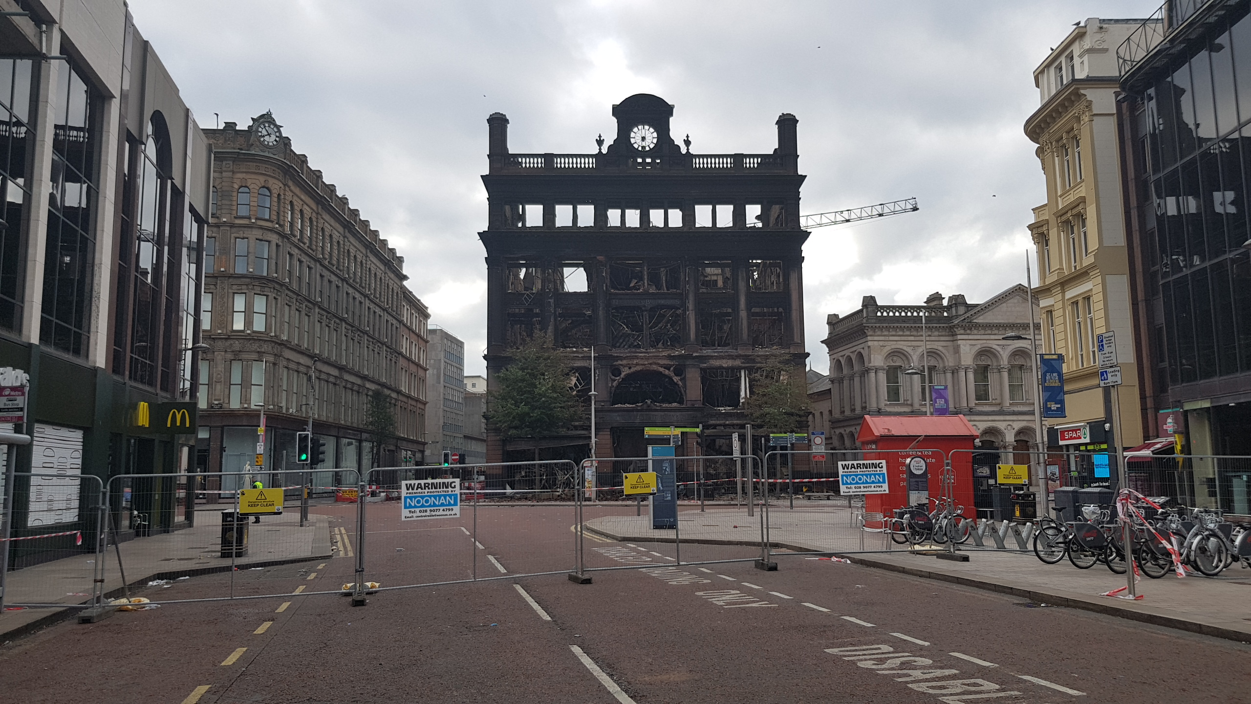 The Bank Buildings seen from Castle Place. This is following the fire which destroyed the building on 28 August 2018. The fire took 3 days to extinguish and parts of the building were still smouldering on 1 September.